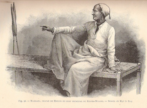 Mandara, chief of Moshi